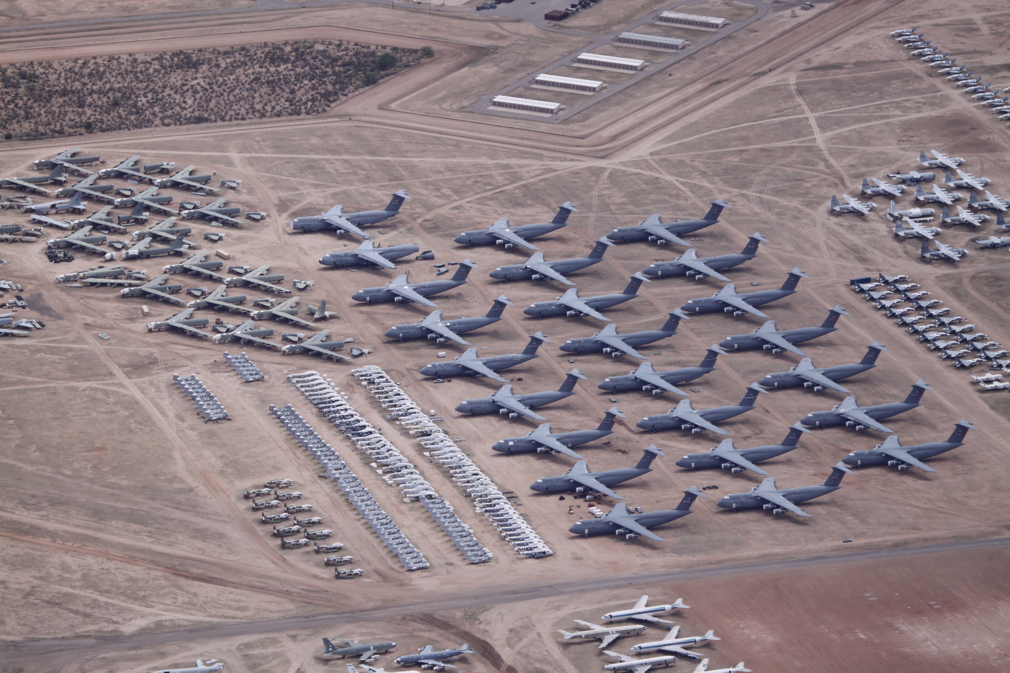 At AMARC - Davis Monthan AFB